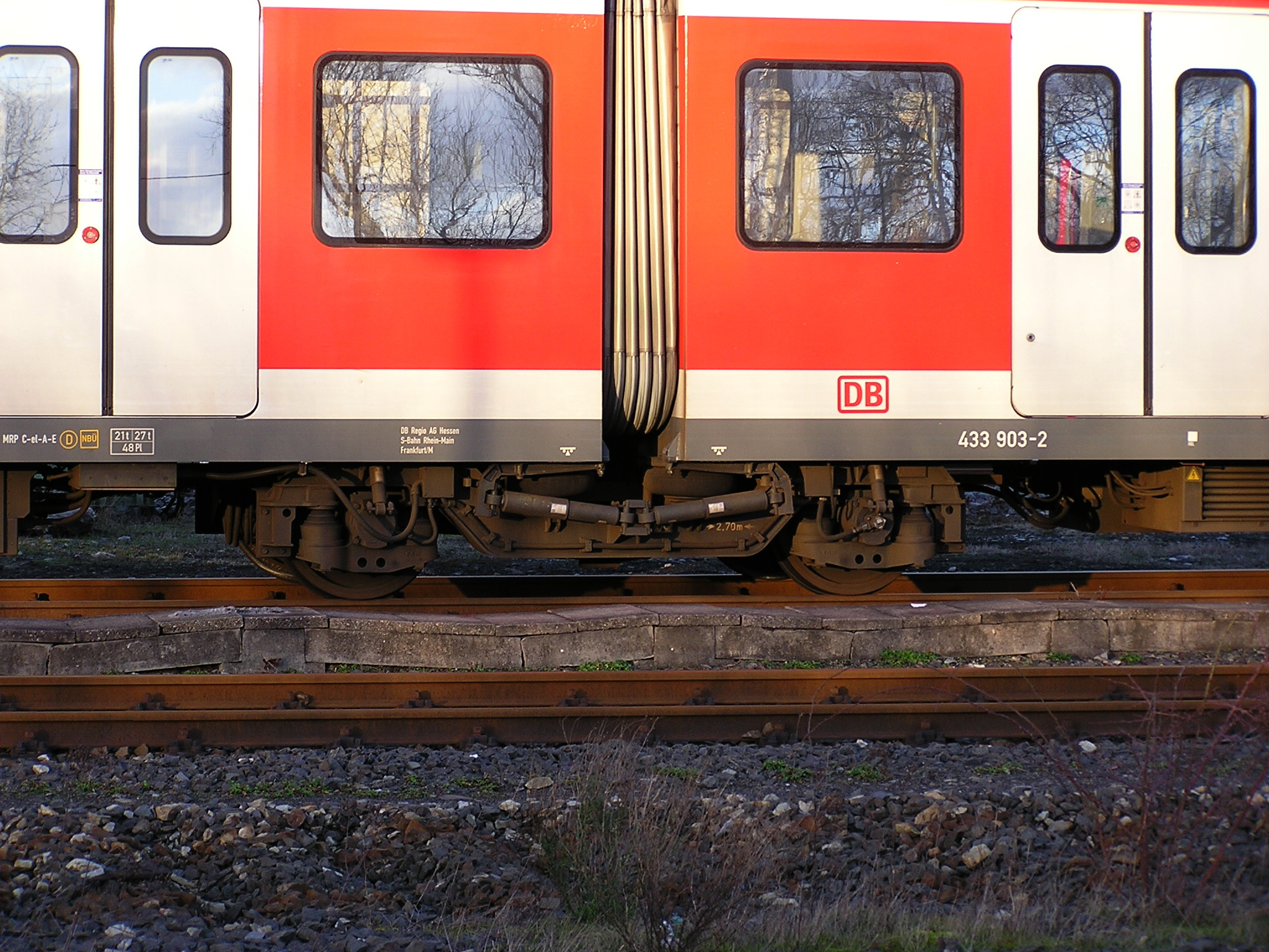 Jacobs bogie of an EMU Class 423